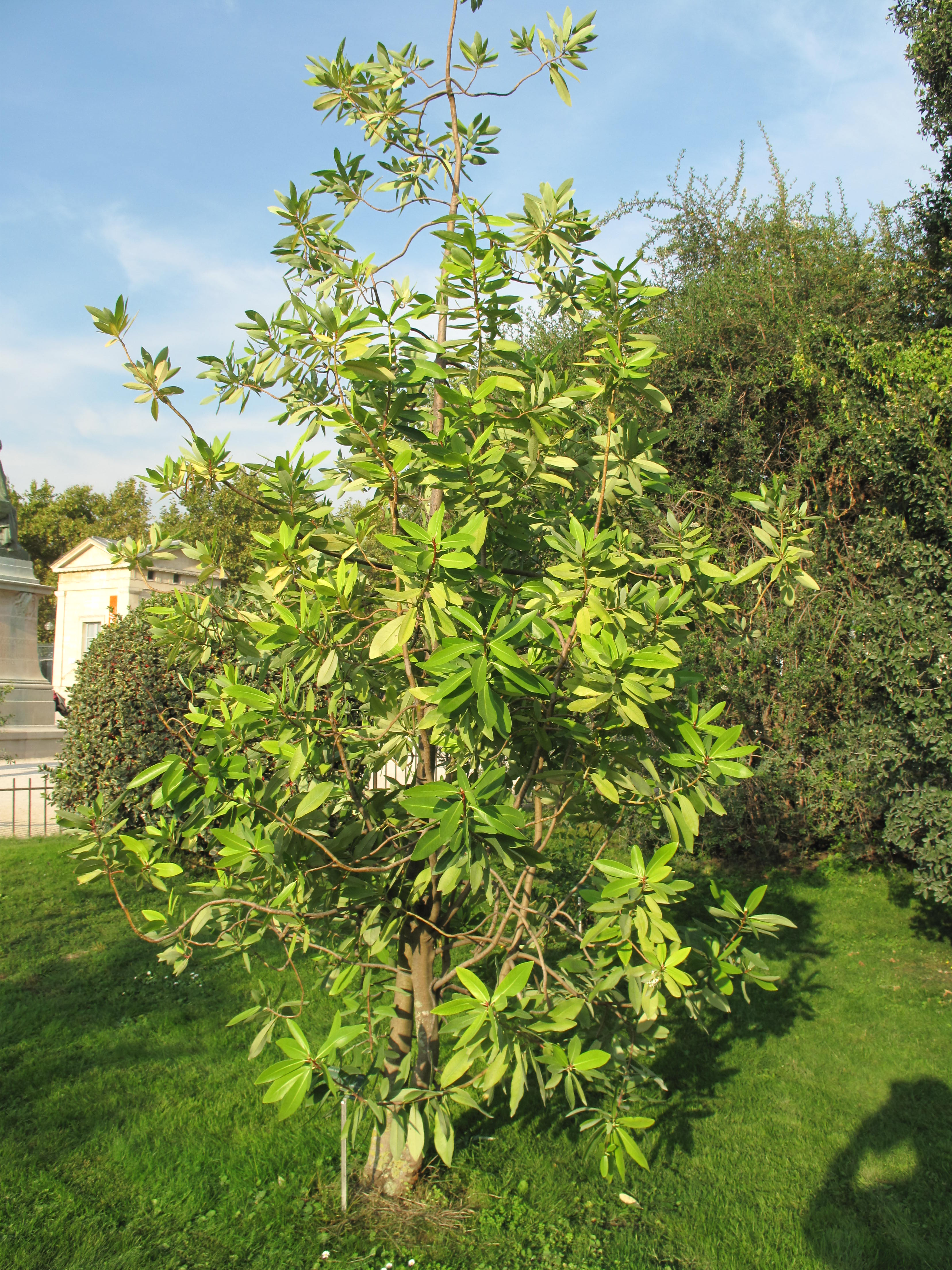 Winter's bark (Drimys winteri) in the Jardin des Plantes in Paris. Identified by sign.